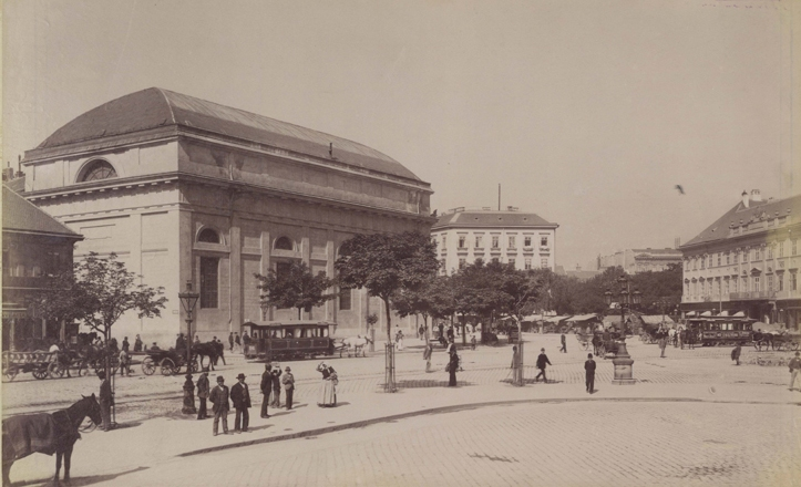 Budapest, Deák tér in the 1890's